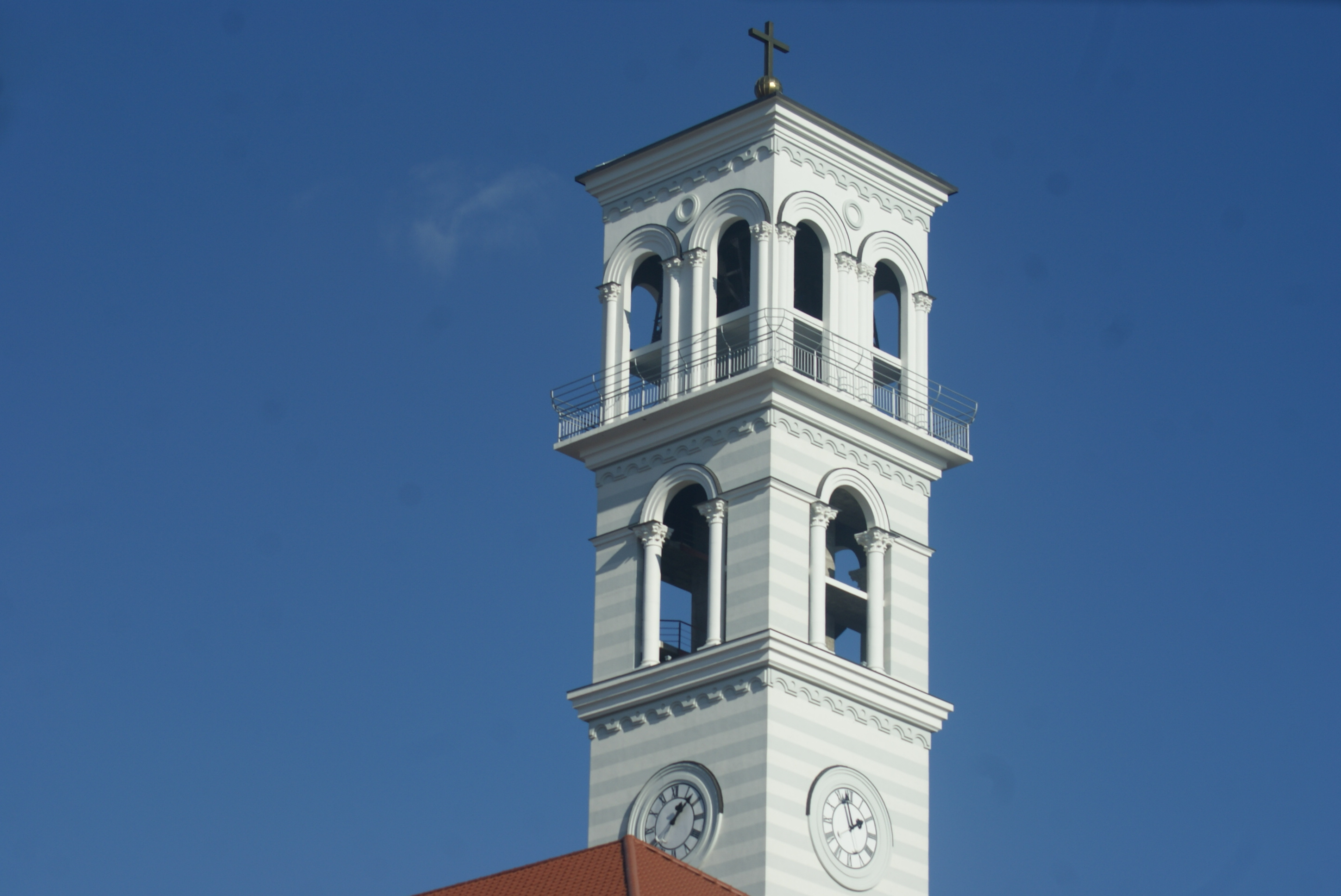 The most beautiful Cathedral in Kosova.